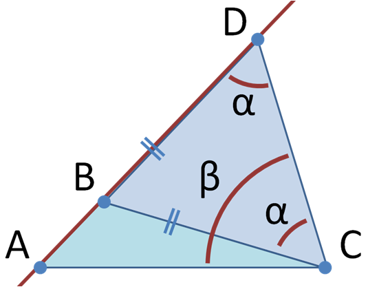 Construction for Euclid's proof of triangle inequality